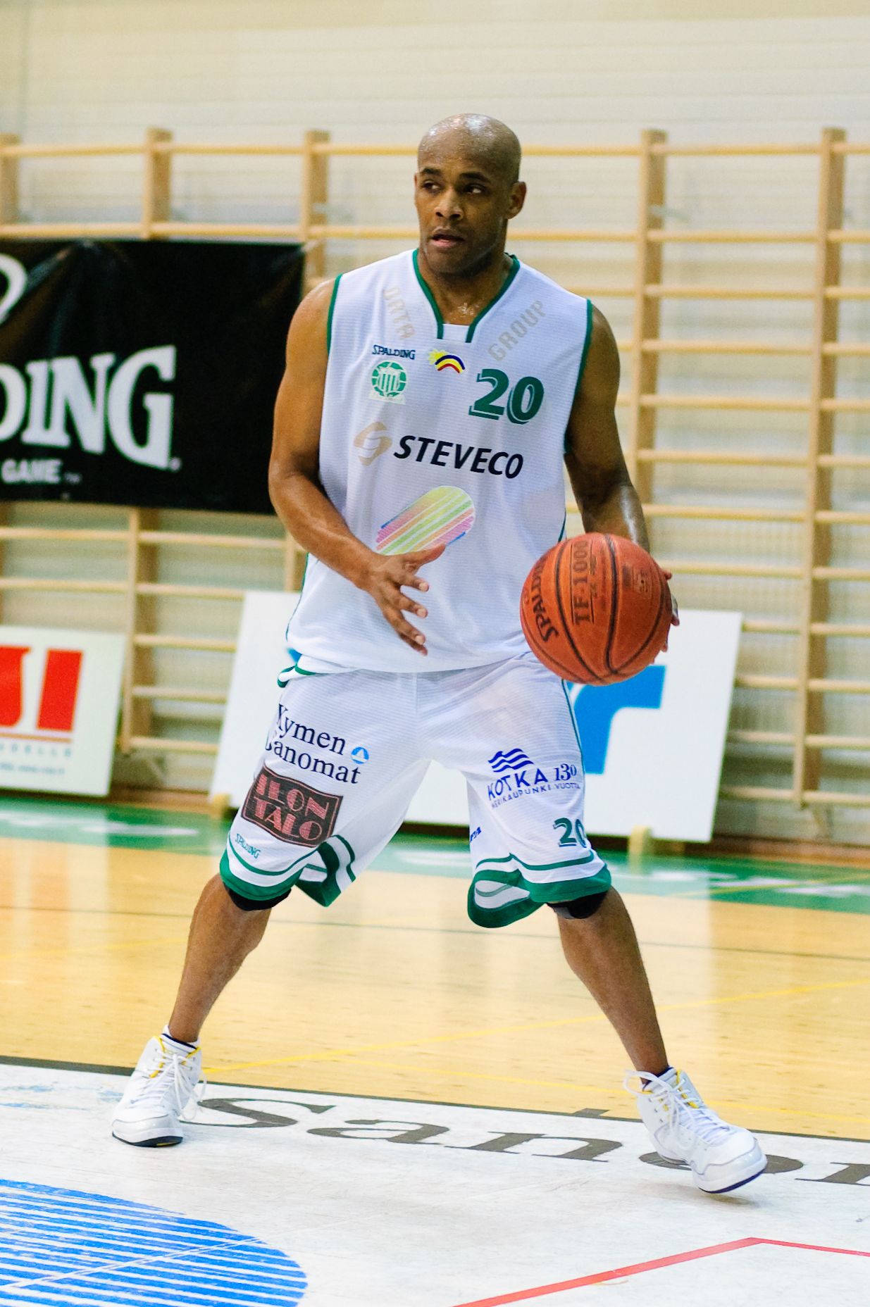 American basketball player Eric Washington playing for KTP-Basket against Lappeenrannan NMKY at Steveco Areena in Kotka, Finland. KTP-Basket won the Finnish Basketball league playoff game 106-70 and advanced to the semi-final round by winning the series 3-0.